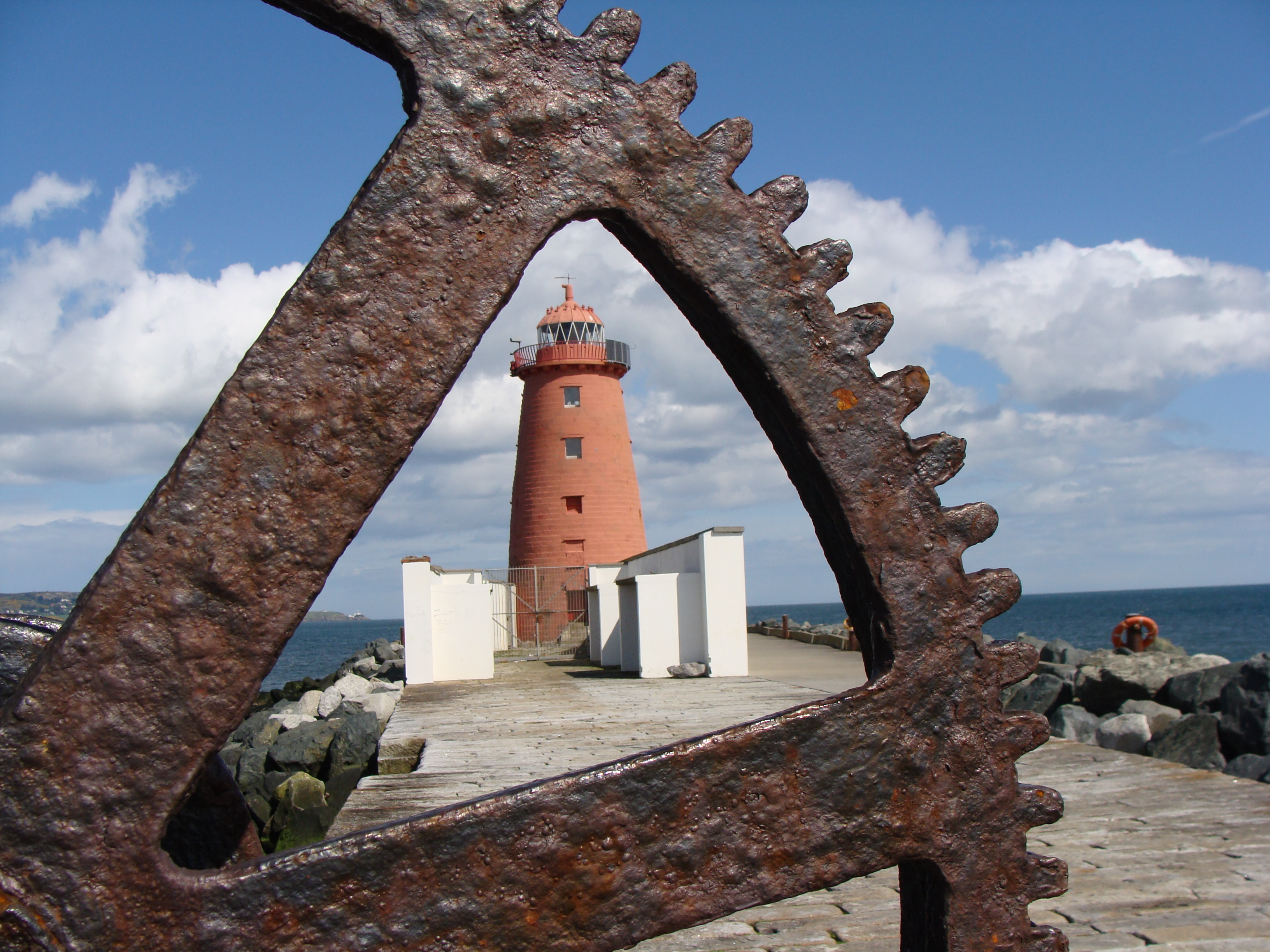 Poolbeg Lighthouse, Dublin, Ireland